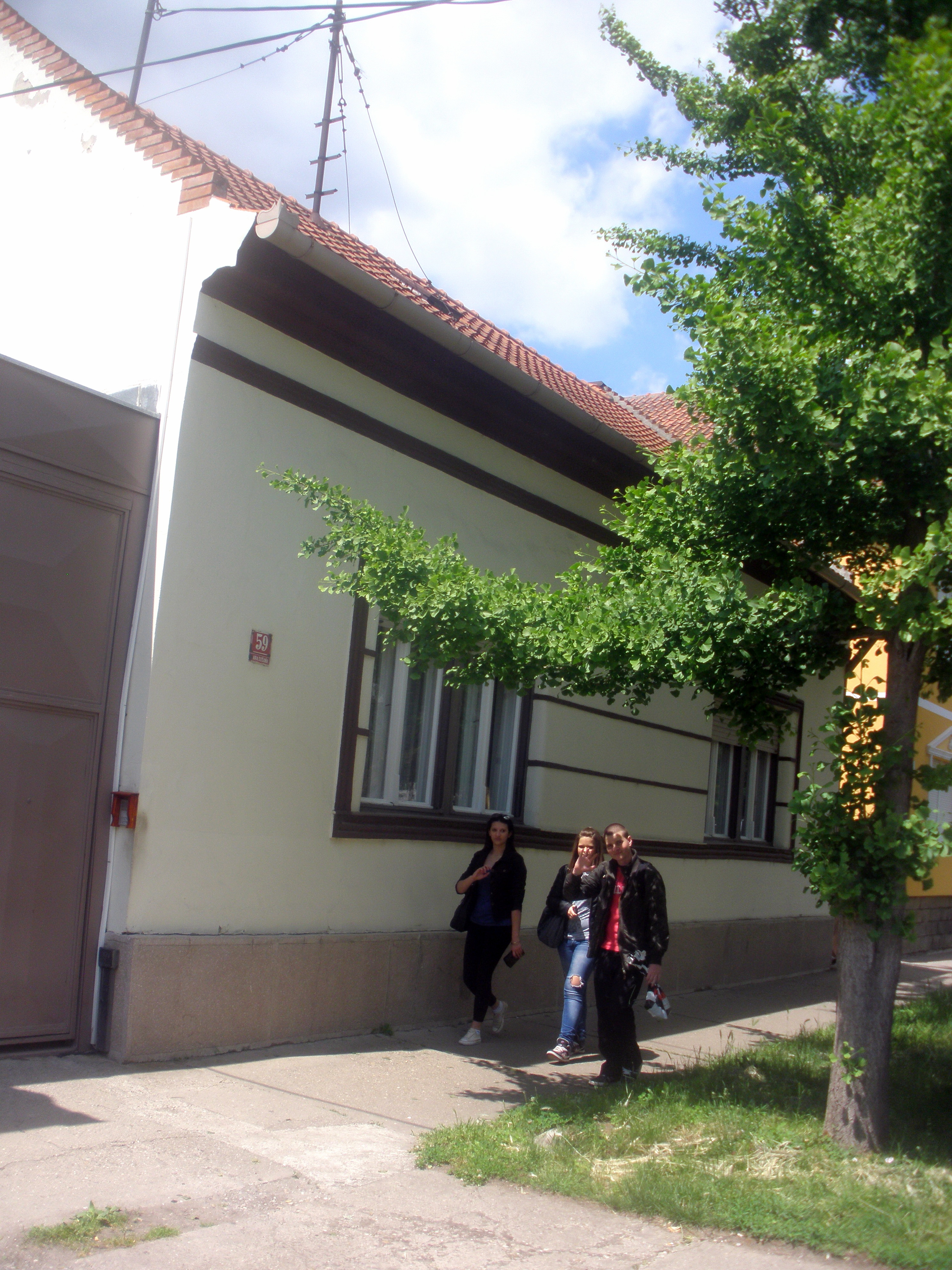 House in Zrenjanin, in which lived Mary Margaret Bogner